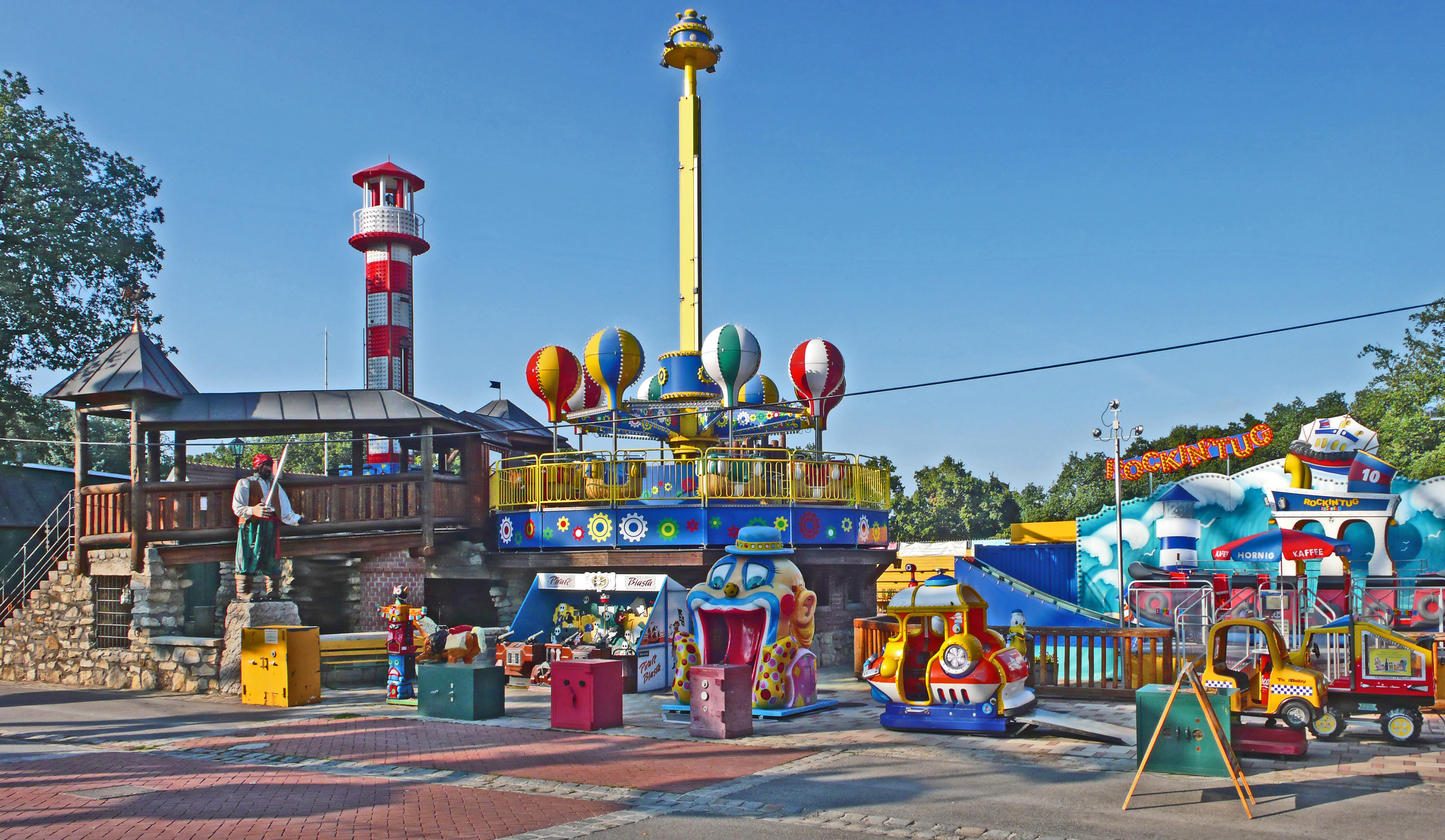 Theme park "Böhmischer Prater" in Vienna, 10. district